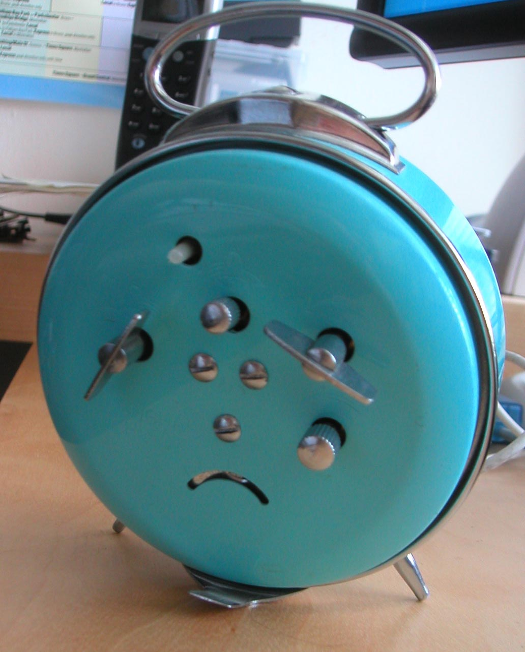 A look of despair graces the back of this cheap Chinatown (Pearl River NYC) alarm clock. Possibly intentional?